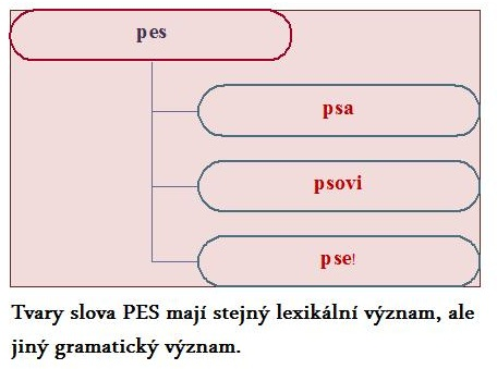 a gramatical meaning of a word